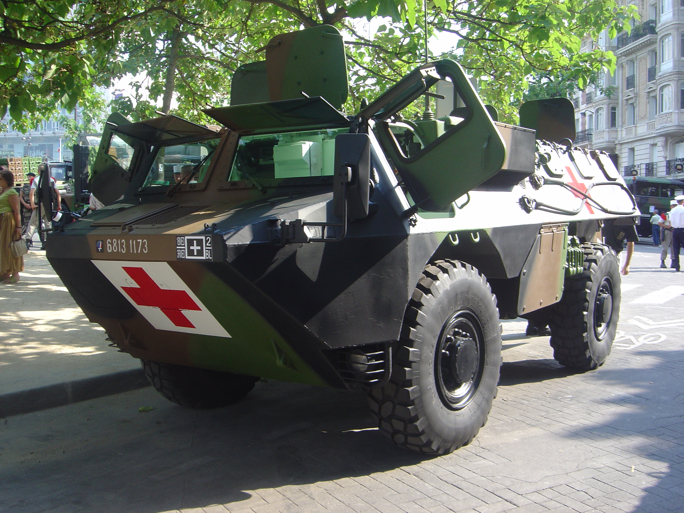 French medical VAB (armored personal carrier).